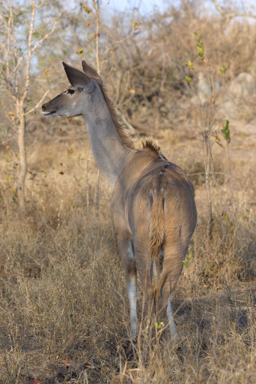 A Greater Kudu (Tragelaphus strepsiceros) cow in Sabi Sands Game Reserve, South Africa.